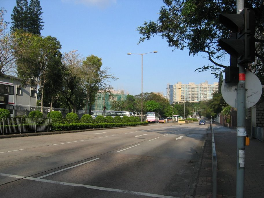 義德道及歌和老街交界 Intersection of Ede Road and Cornwall Street